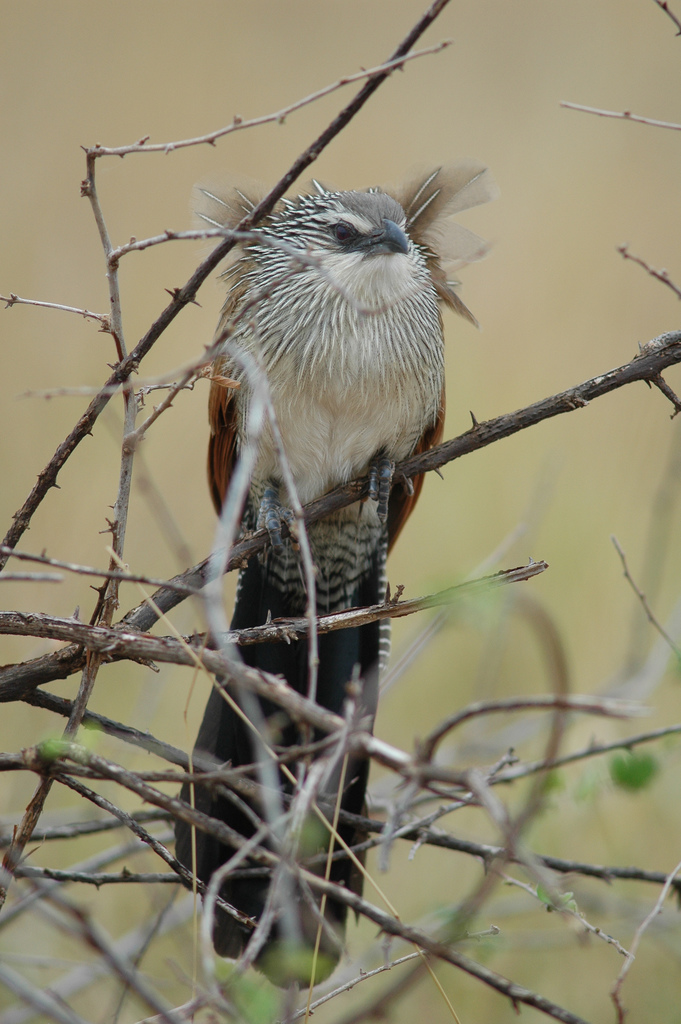 White-browed Coucal Centropus superciliosus, Meru National Park, Kenya